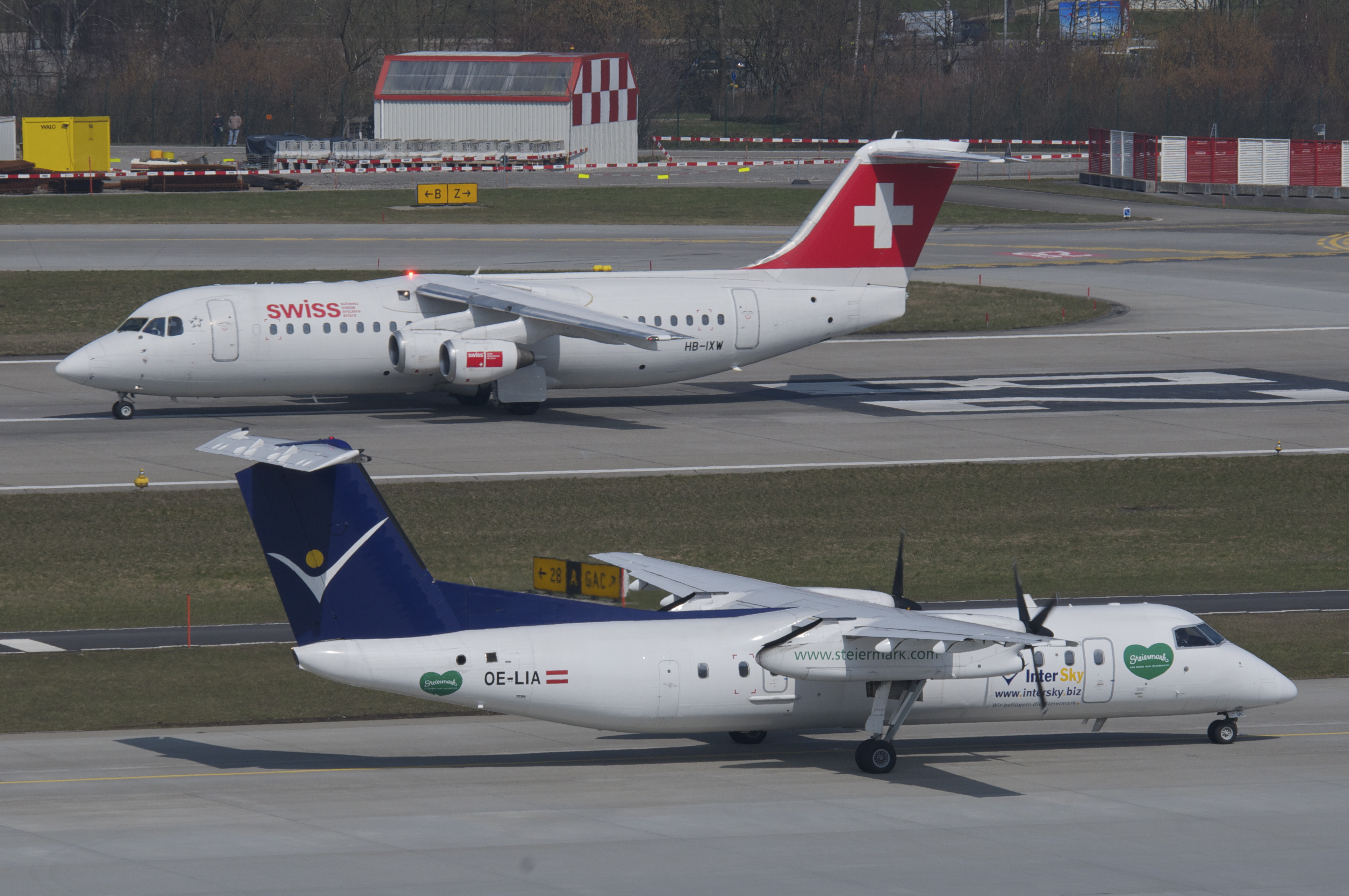 InterSky DHC-8-300 Dash 8; OE-LIA@ZRH;01.04.2013/698as